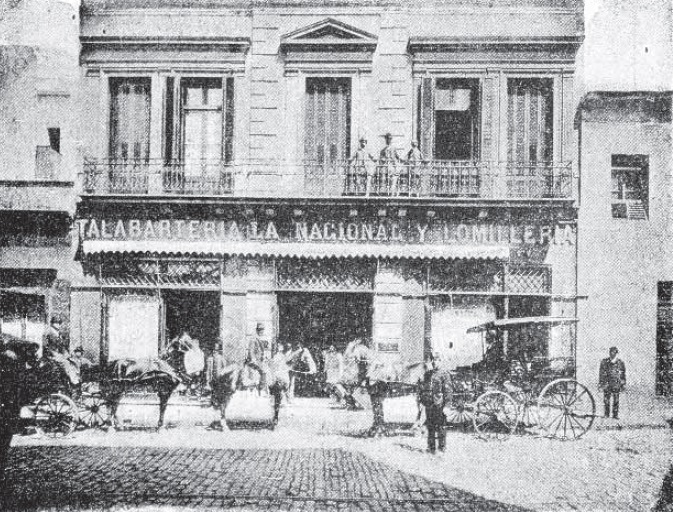 See title